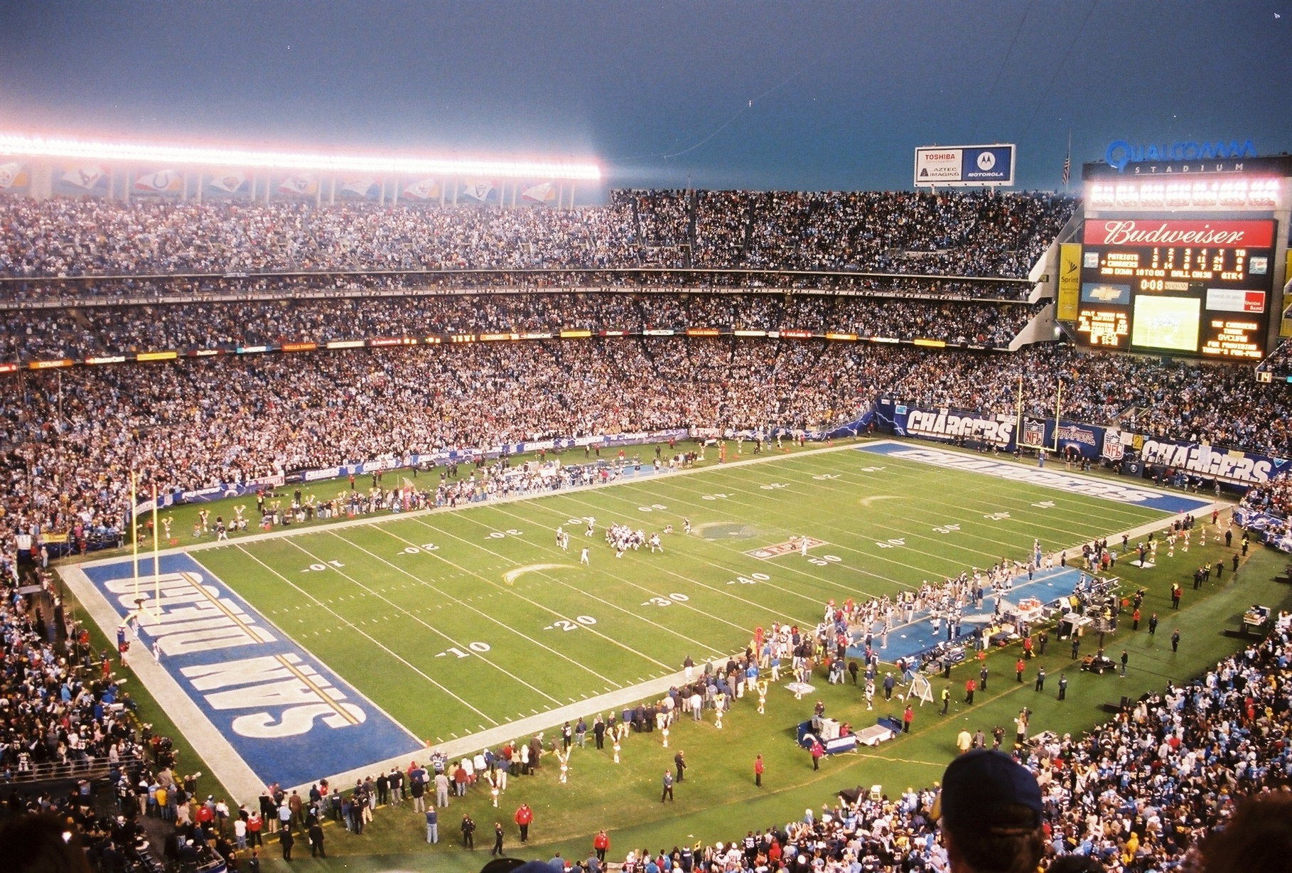 Qualcomm Stadium during Chargers' playoff game against New England, 1/14/07. Nate Kaeding missed this field goal with 8 seconds remaining to seal the Patriots' victory.